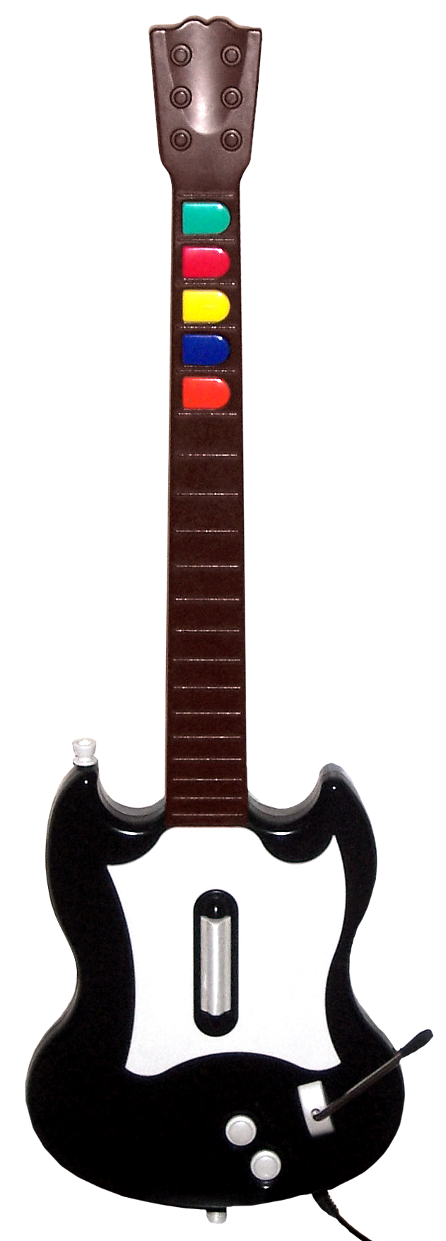 Self-taken photo of Guitar Hero Gibson SG guitar controller. Released into the public domain. Guitar controller Guitar Hero 1